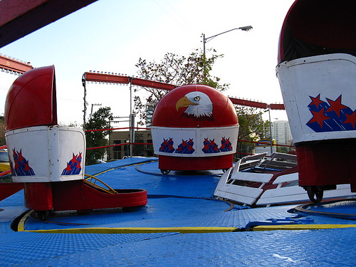 Tilt a Whirl